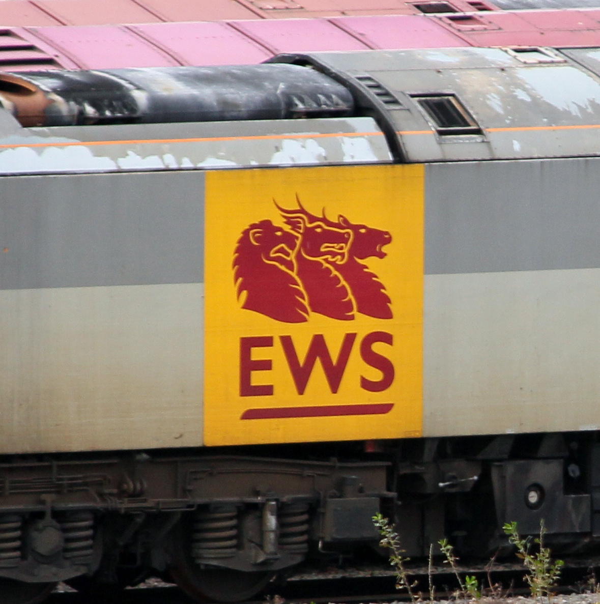 Toton Traction Maintenance Depot , EWS Grey for sale